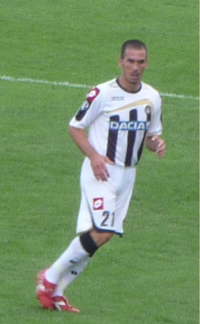 Udinese - Catania 4-2, 13/09/2009